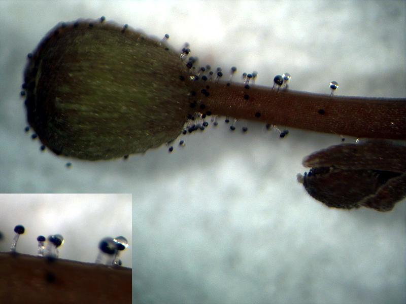 I, User:Rkitko, am the creator of this photograph.